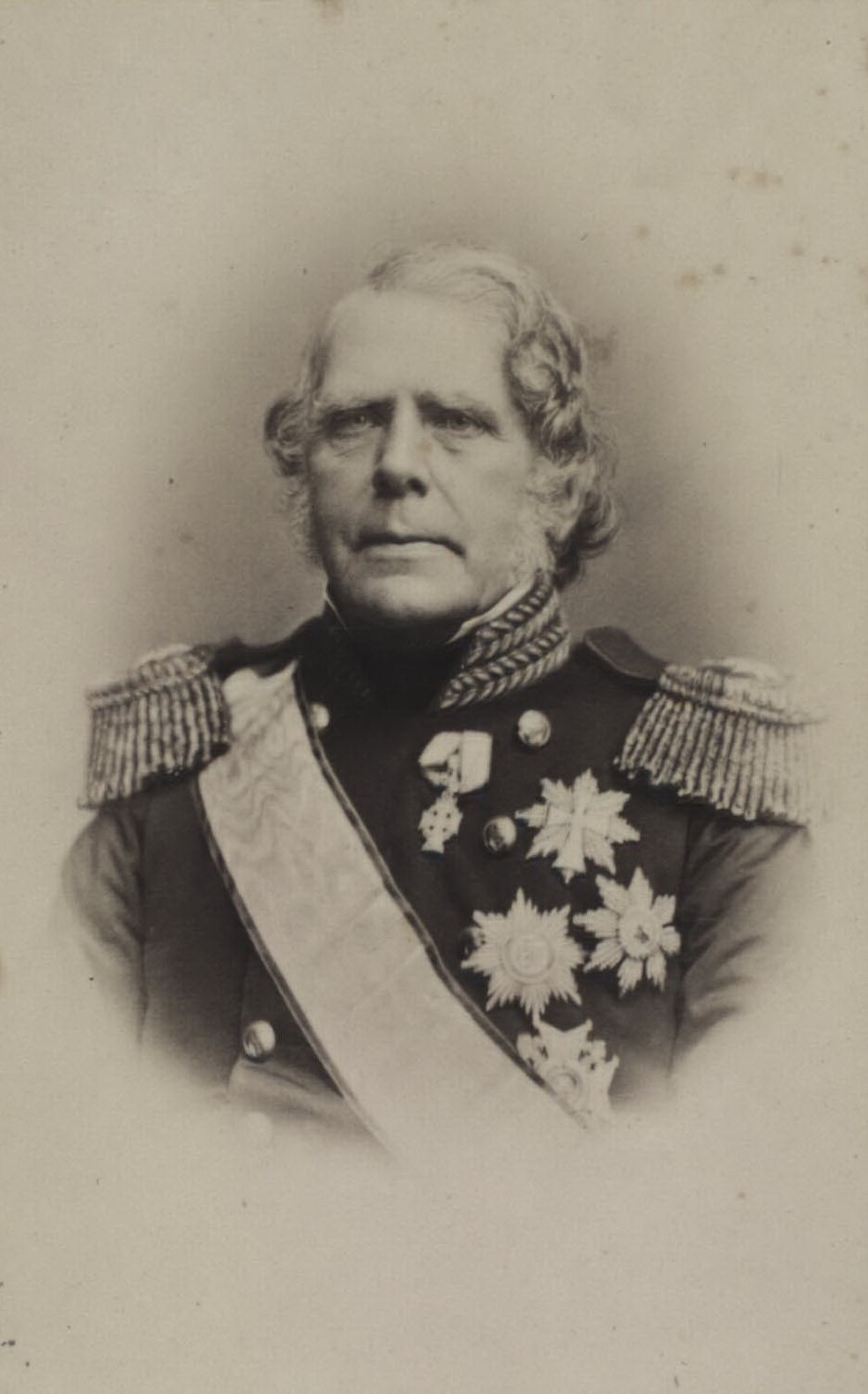 Ove Wilhelm Michelsen (1800-1880), Danish Counter Admiral, Minister of the Royal Navy, Member of the Danish Folketing